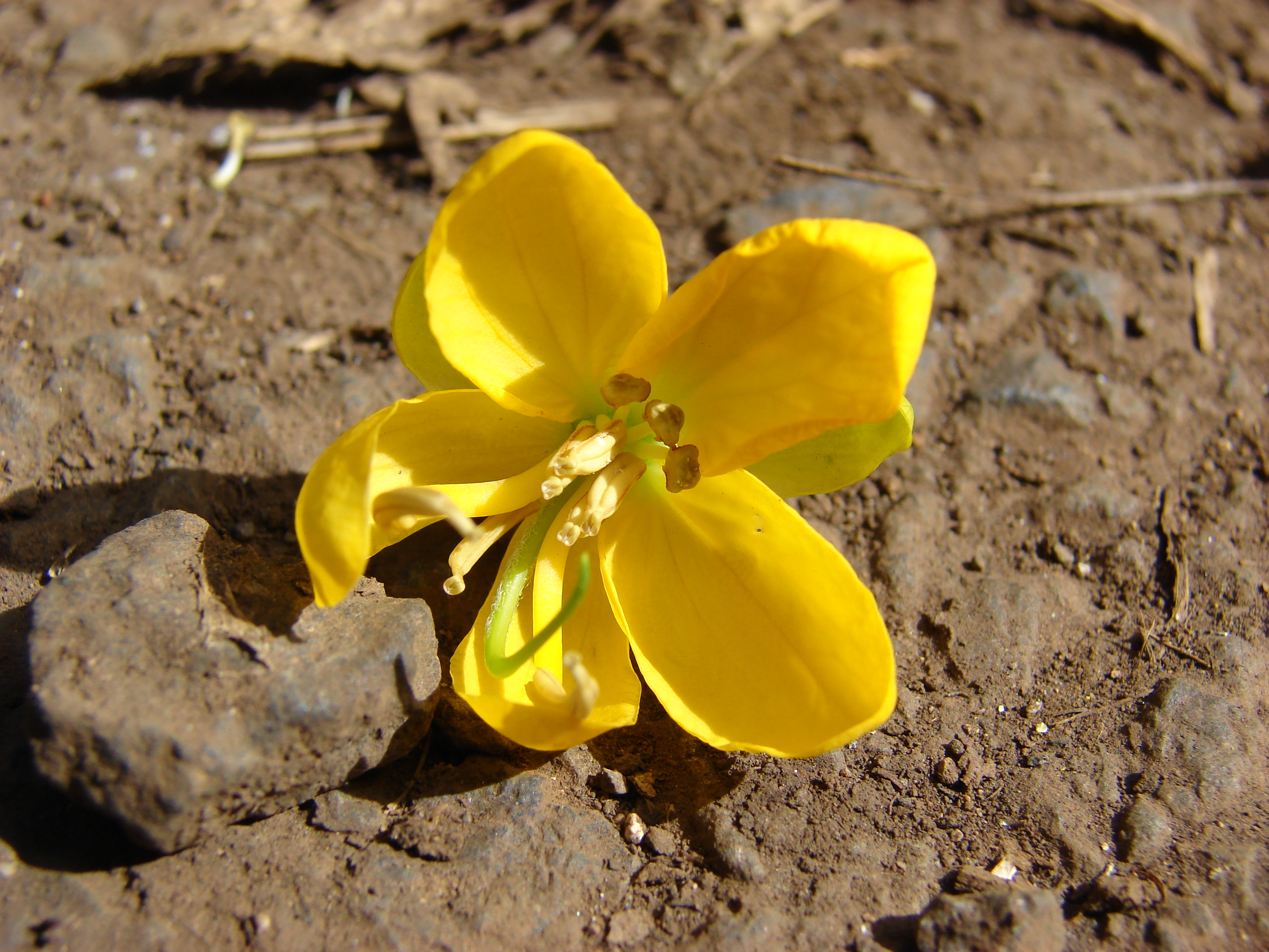 Senna pendula (flower). Location: Maui, Haiku